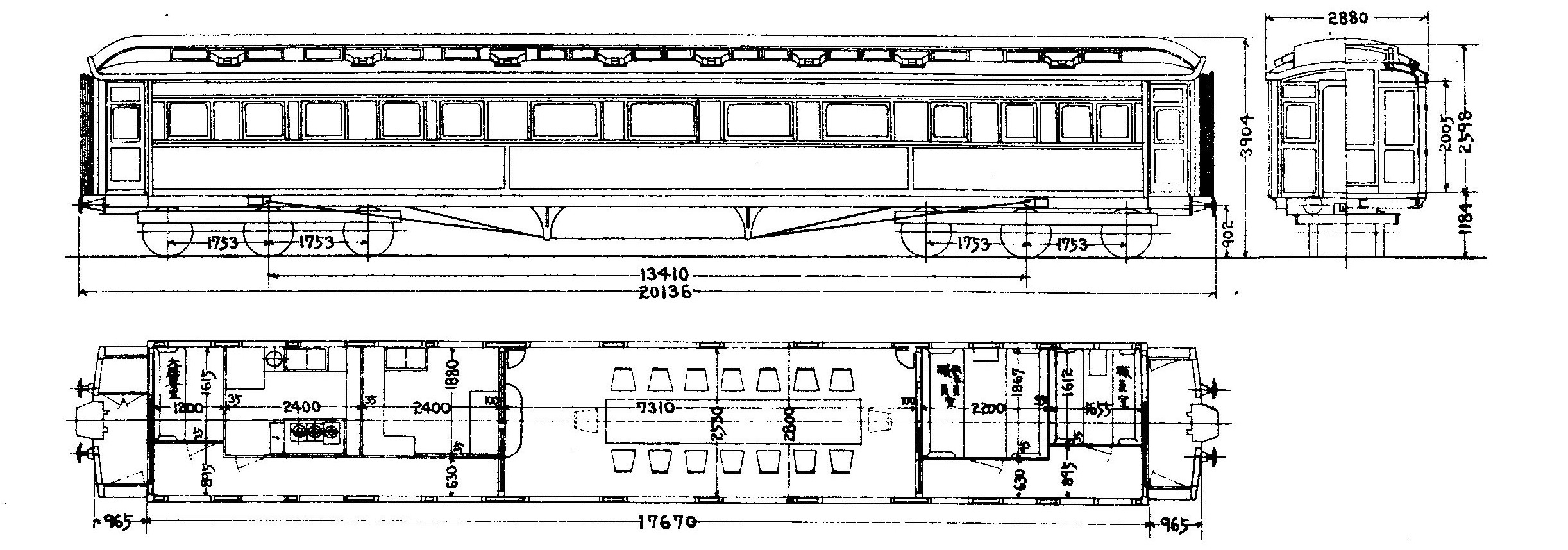 Type drawing of JGR's Imperial Car No.11